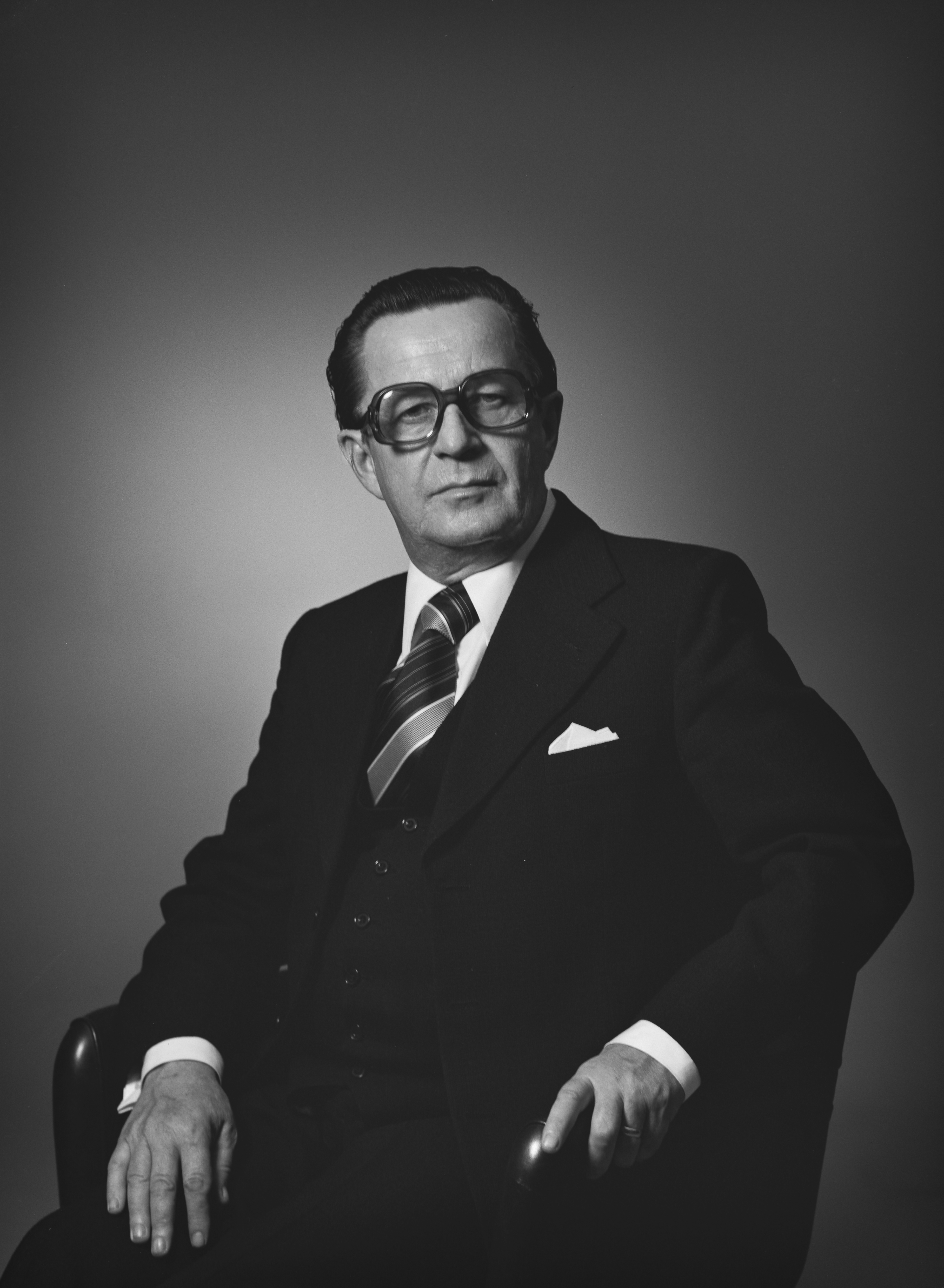 Photograph of the Finnish politician Valde Nevalainen (1919–1994).